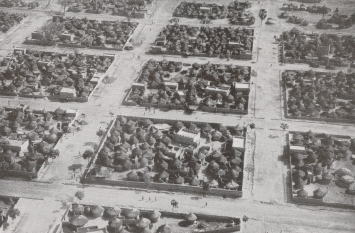 Ouagadougu (Upper Volta, now Burkina Faso) in late December 1930 or early January 1931. Air photo taken by Swiss pilot and photographer Walter Mittelholzer (1894-1937).